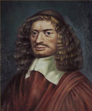 Alexander More / Morus (1616–1670), [NOT Giacomo Carissimi]. [cf. Gloria Rose: A Portrait Called Carissimi. In: Music & Letters, Vol. 51, No. 4 (Oct., 1970), pp. 400-403. online]